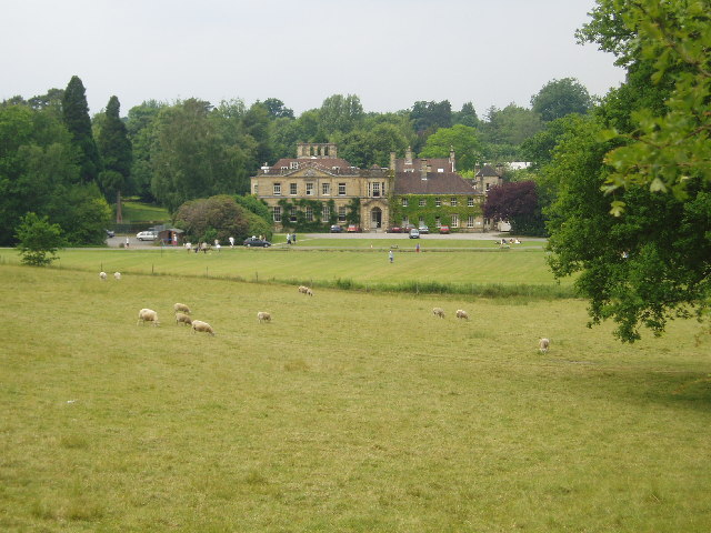 Michael Hall - Rudolph Steiner School at Forest Row. This is known as Michael Hall - Rudolph Steiner school and whilst the picture shows the original mansion that dominated Kidbrooke Park, it does not show the many purpose built school facilities for the approx. 700 pupils nor the pupils themselves ! I was given a brief guided tour by one of the teachers who enthused about the educational system that Rudolph Steiner established.